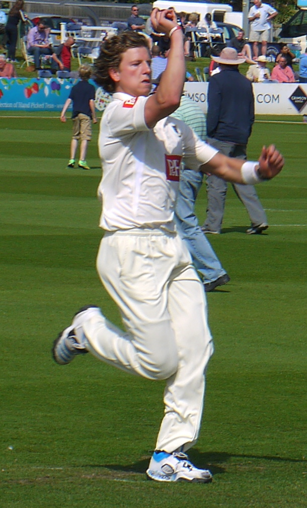 Sussex cricketer Matt Hobden warming up during match against Hampshire at Hove, in June 2015.